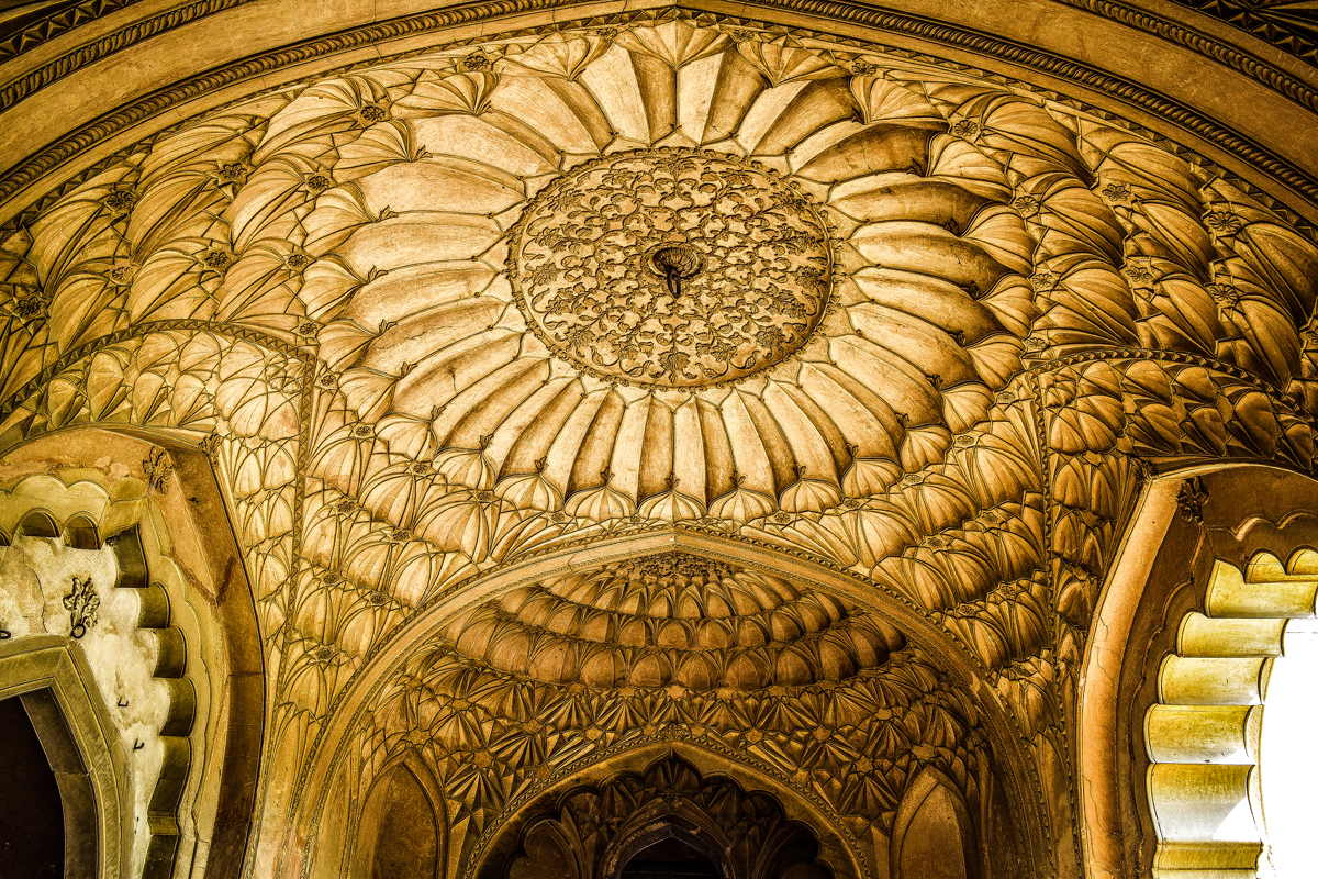 Intricate floral decoration on the ceiling of the mausoleum.